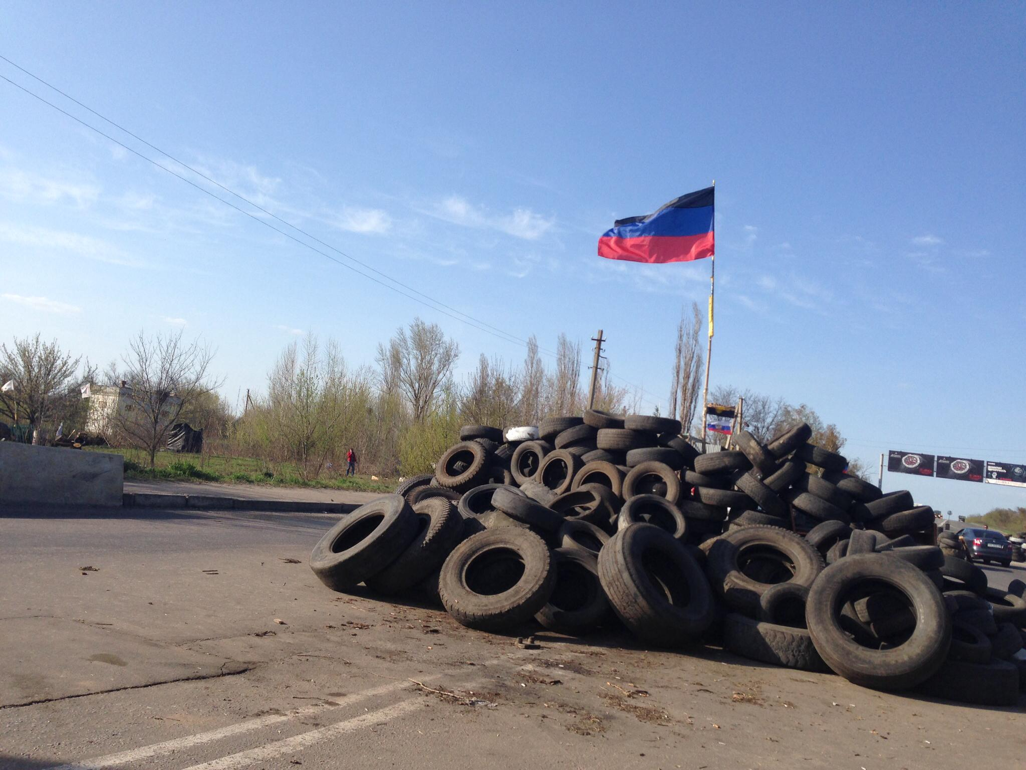 Checkpoint in Donetsk oblast, Ukraine, during the Sloviansk standoff. The author of this photo, Aleksandr Sirota, visited his parents in Sloviansk on Easter holidays.